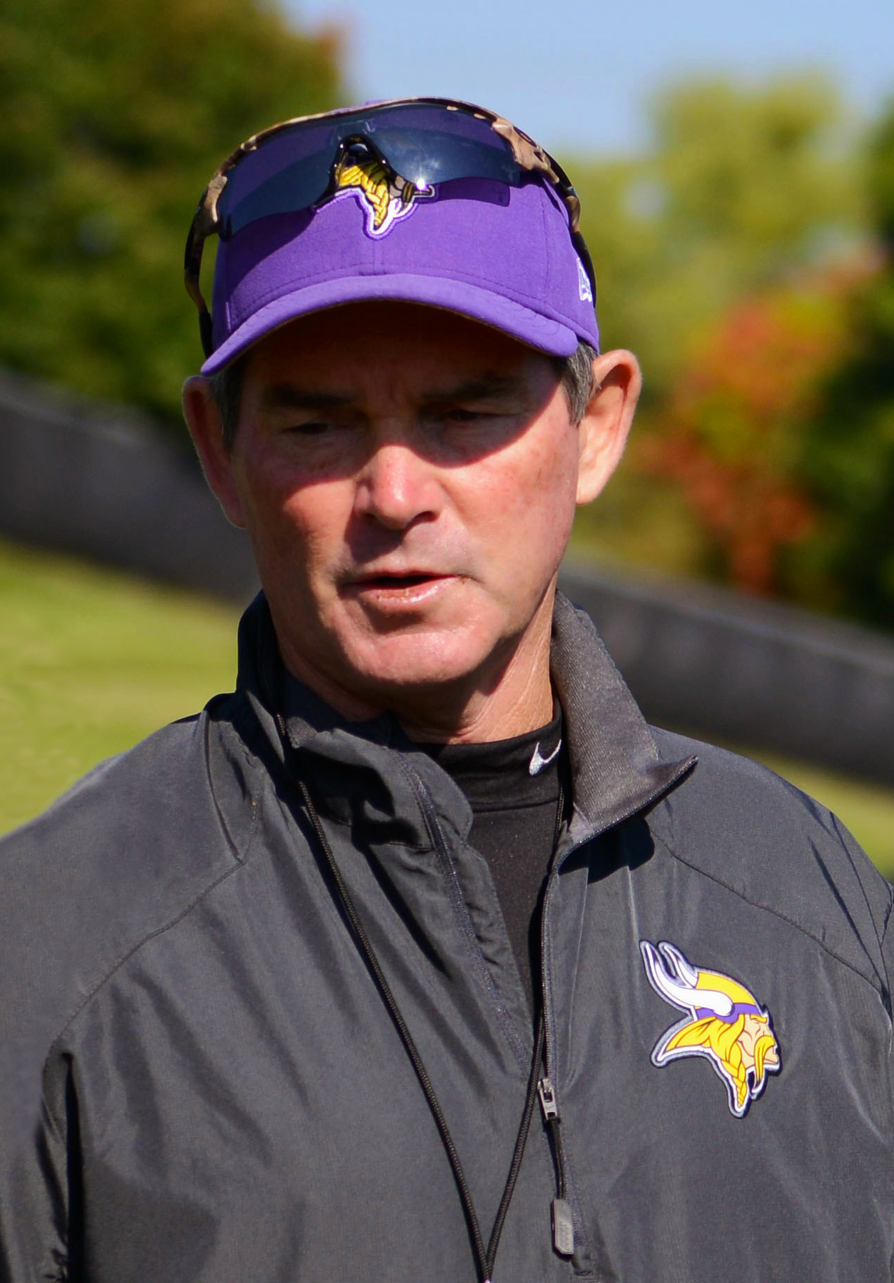 Soldiers taking part in the Vikings’ Soldier Salute program visited the Vikings practice facility in Eden Prairie on Sept. 20, 2014. The Soldiers were given a tour of the facility before watching practice and conducting interviews in preparation of recognition they will receive during upcoming games.